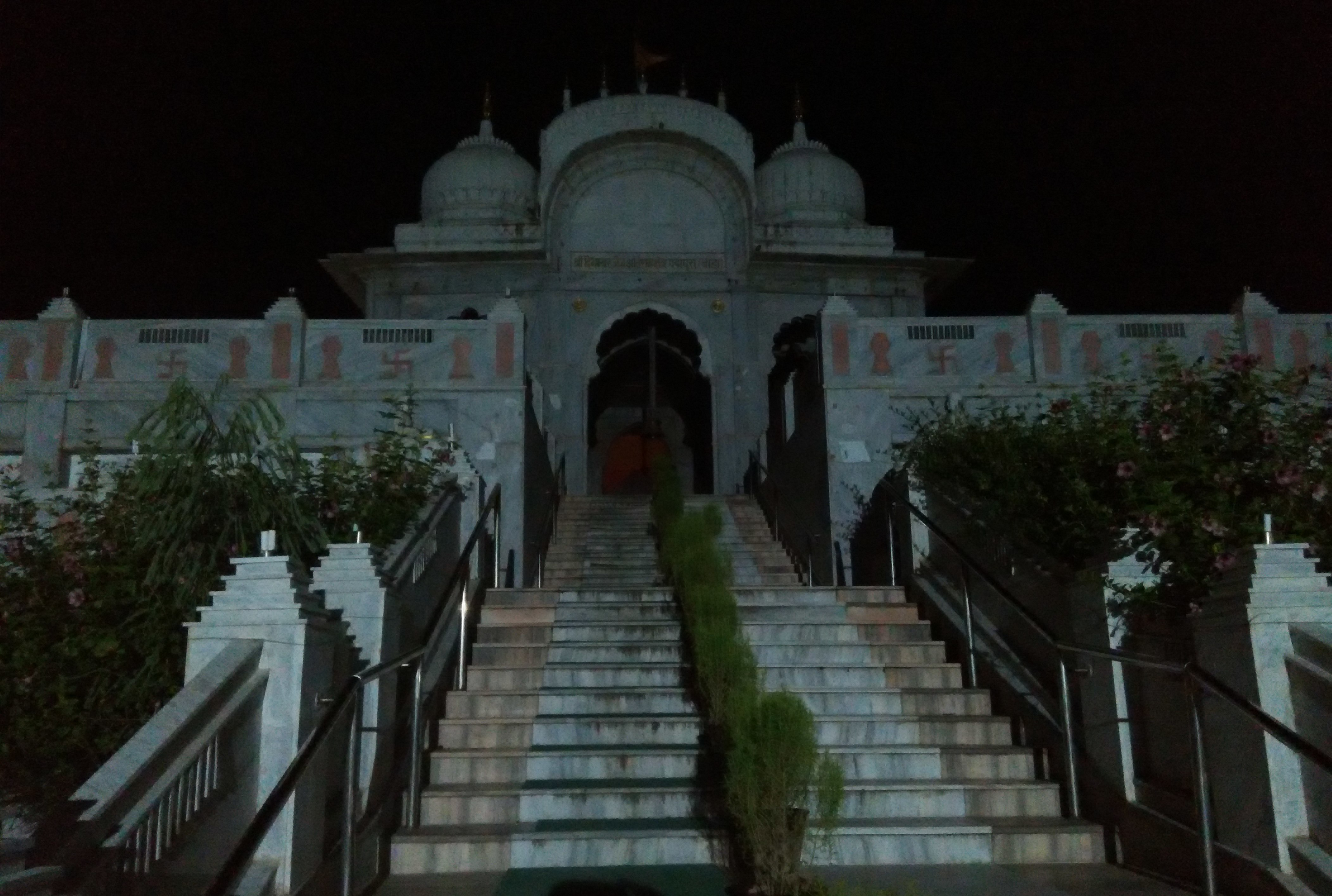 Padampura